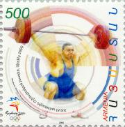 Stamp of Armenia